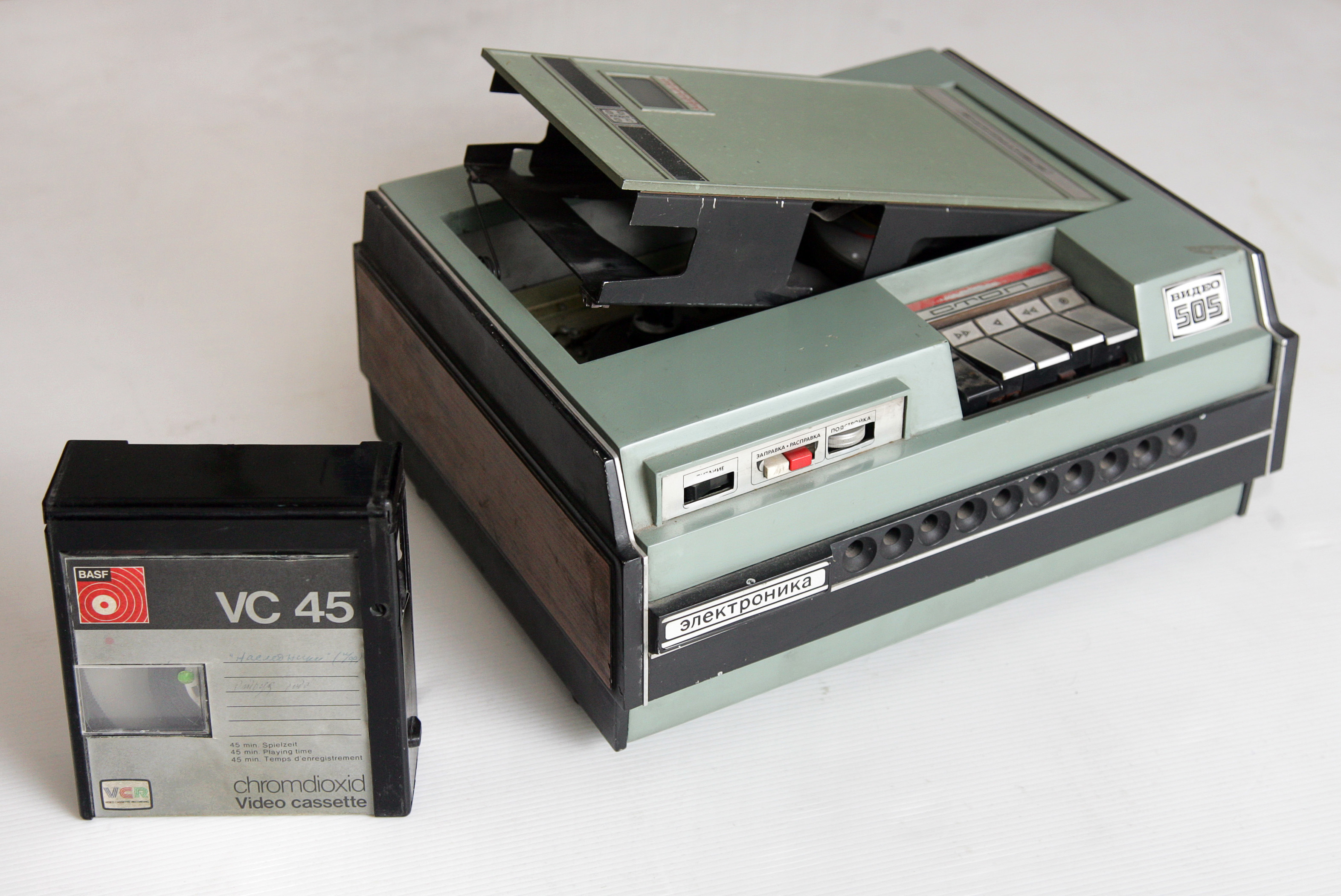 Soviet video cassette recorder "Electronika-505 video" with BASF cassette of "VCR" format in Nizhegorodskaya radio laboratory Museum exhibition.